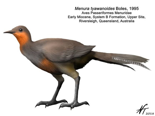 Systematics: Aves Passeriformes Menuridae Size: 60 cm long? Type Horizon and Locality: Early Miocene, System B Formation, Upper Site, Riversleigh, Queensland, Australia Type Specimen: QM F.20887 (AR 11466), complete left carpometacarpus This bird is known from a single bone showing that it was a lyrebird. It was smaller than its modern counterpart. The specific name refers to the resemblance of this species to its living relative. Tyawan is the Australian Aboriginal name for the lyrebird.